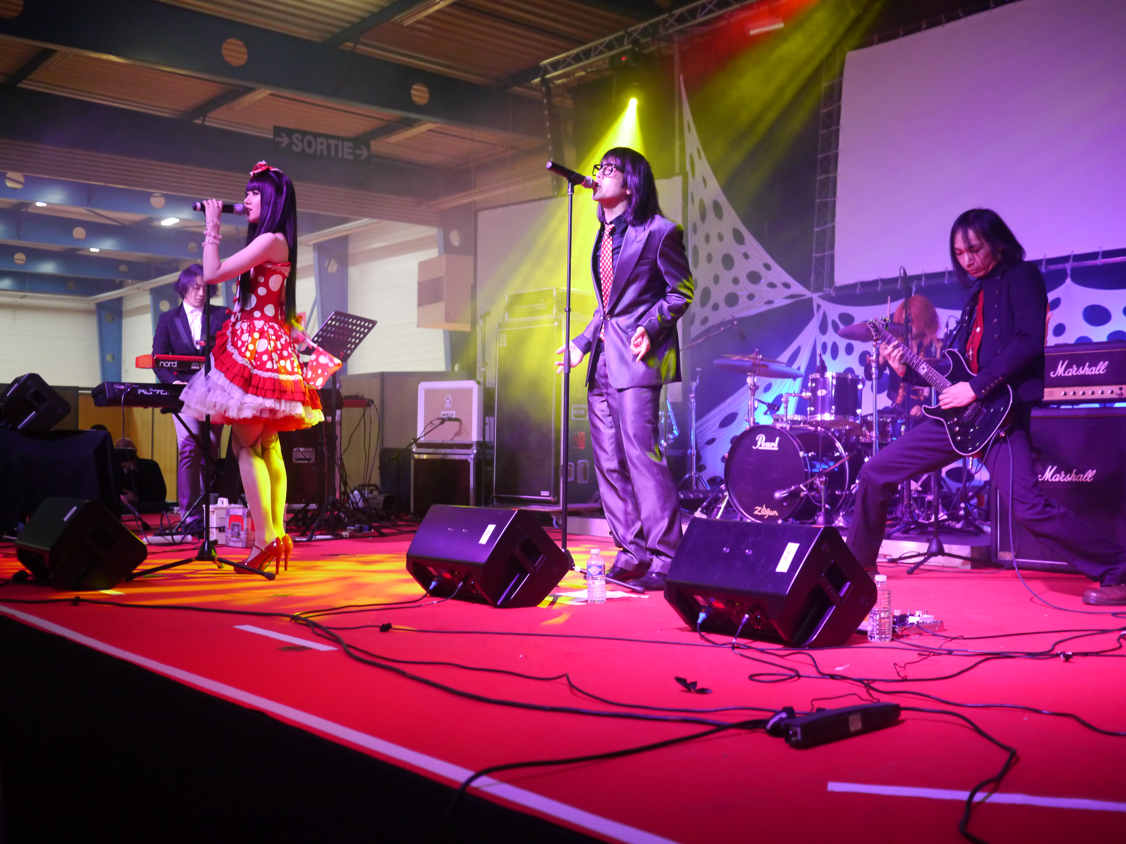 Toulouse Game Show Festival, 6th edition.